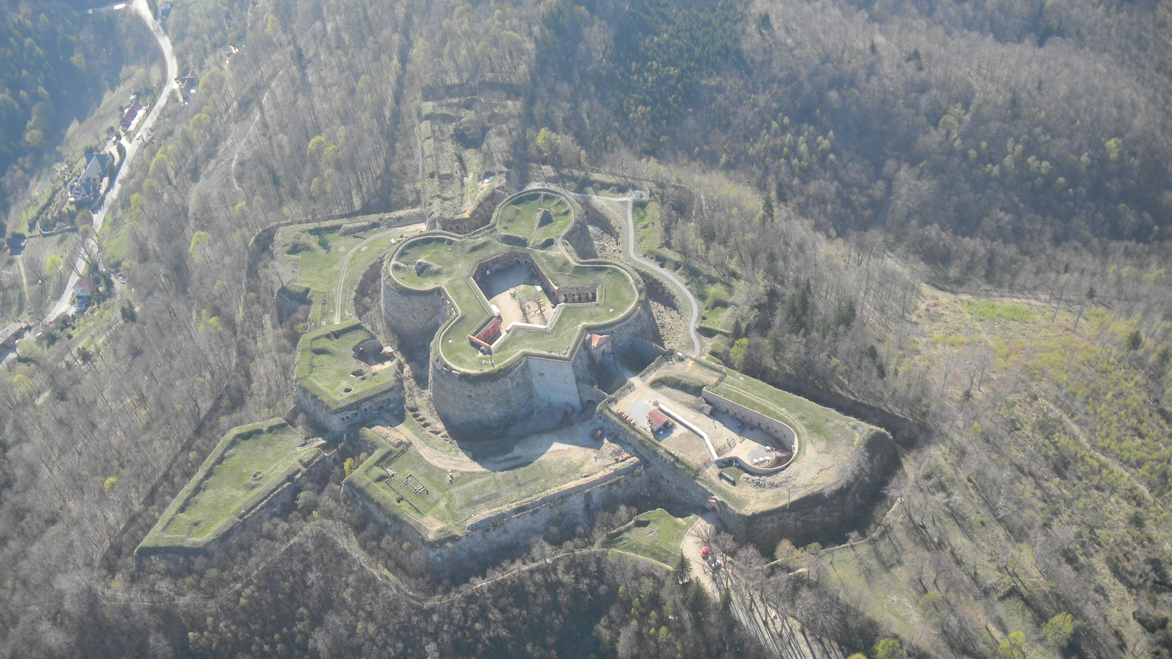 Fort Srebrna Góra